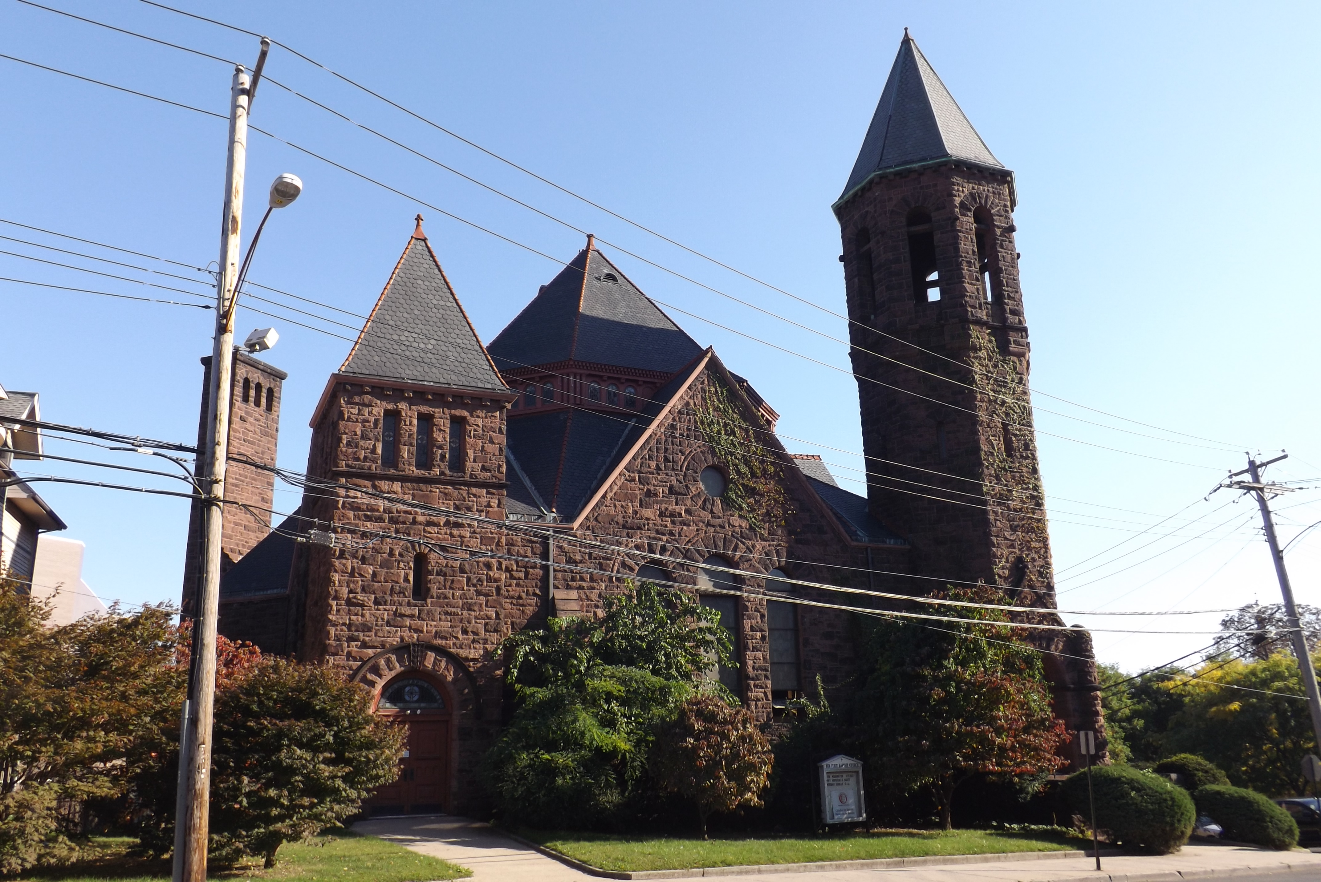 126 Washington Avenue, Bridgeport, Ct